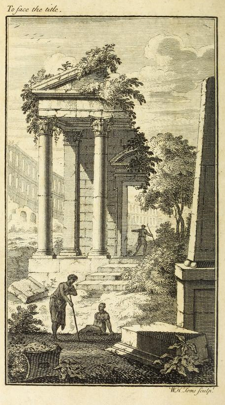 Illustration from Robert Morris' Lectures on Architecture, published in 1759.